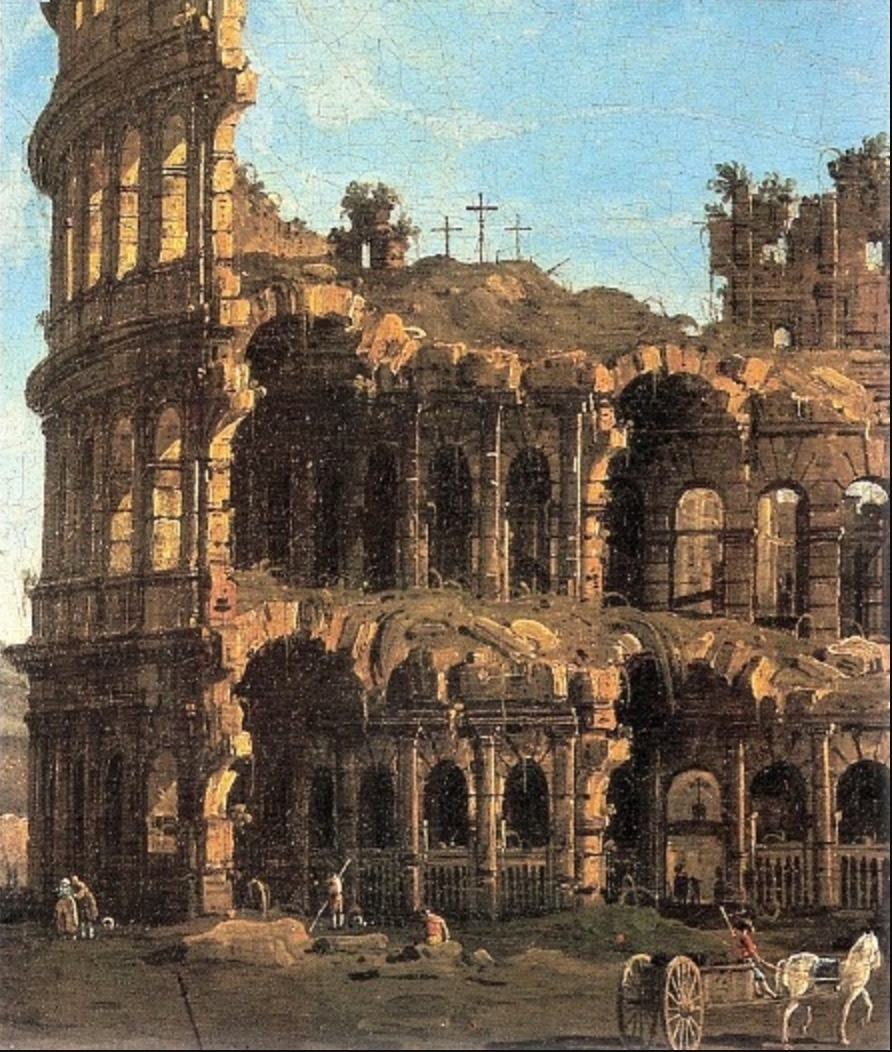 Detail of Colosseum and Arch of Constantine.